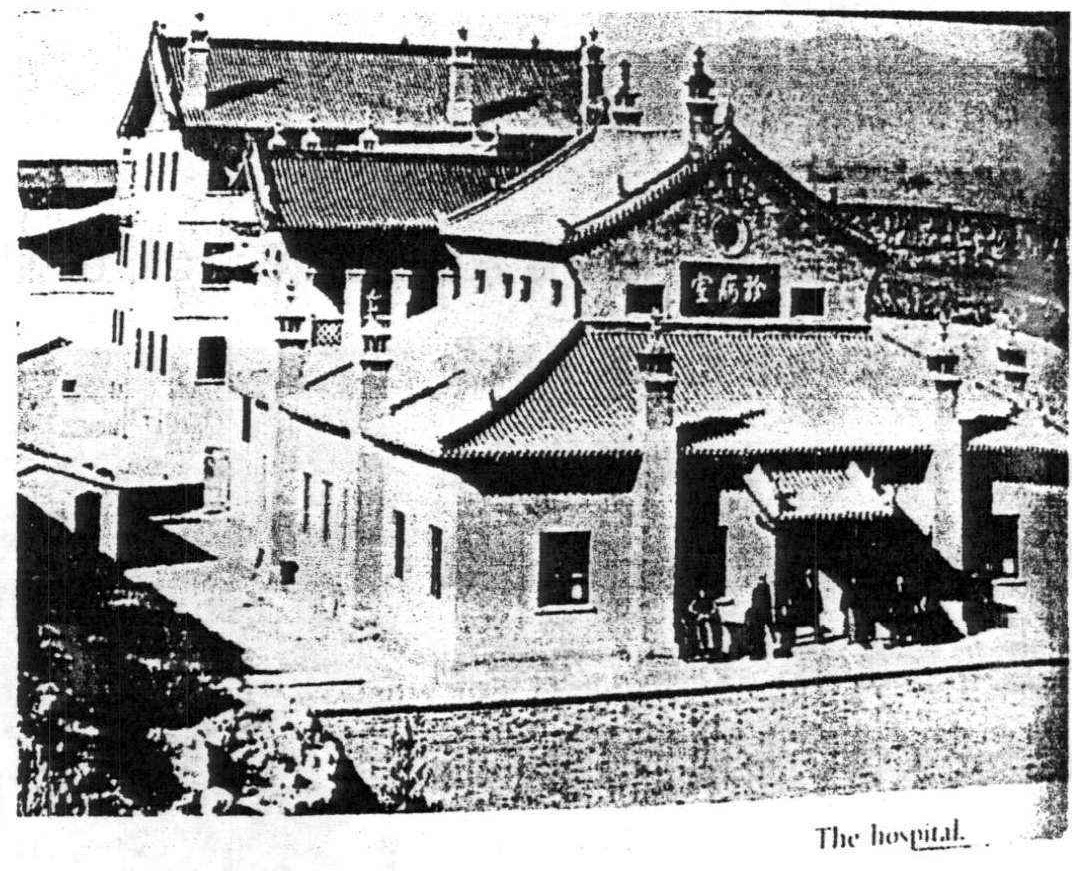 Mosse Memorial Hospital, Datong, China. The hospital was established by Chung Hua Sheng Kung Hui.`